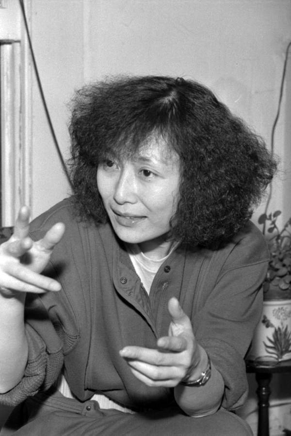 Portrait of Christine Choy, film maker - Tallahassee, Florida.